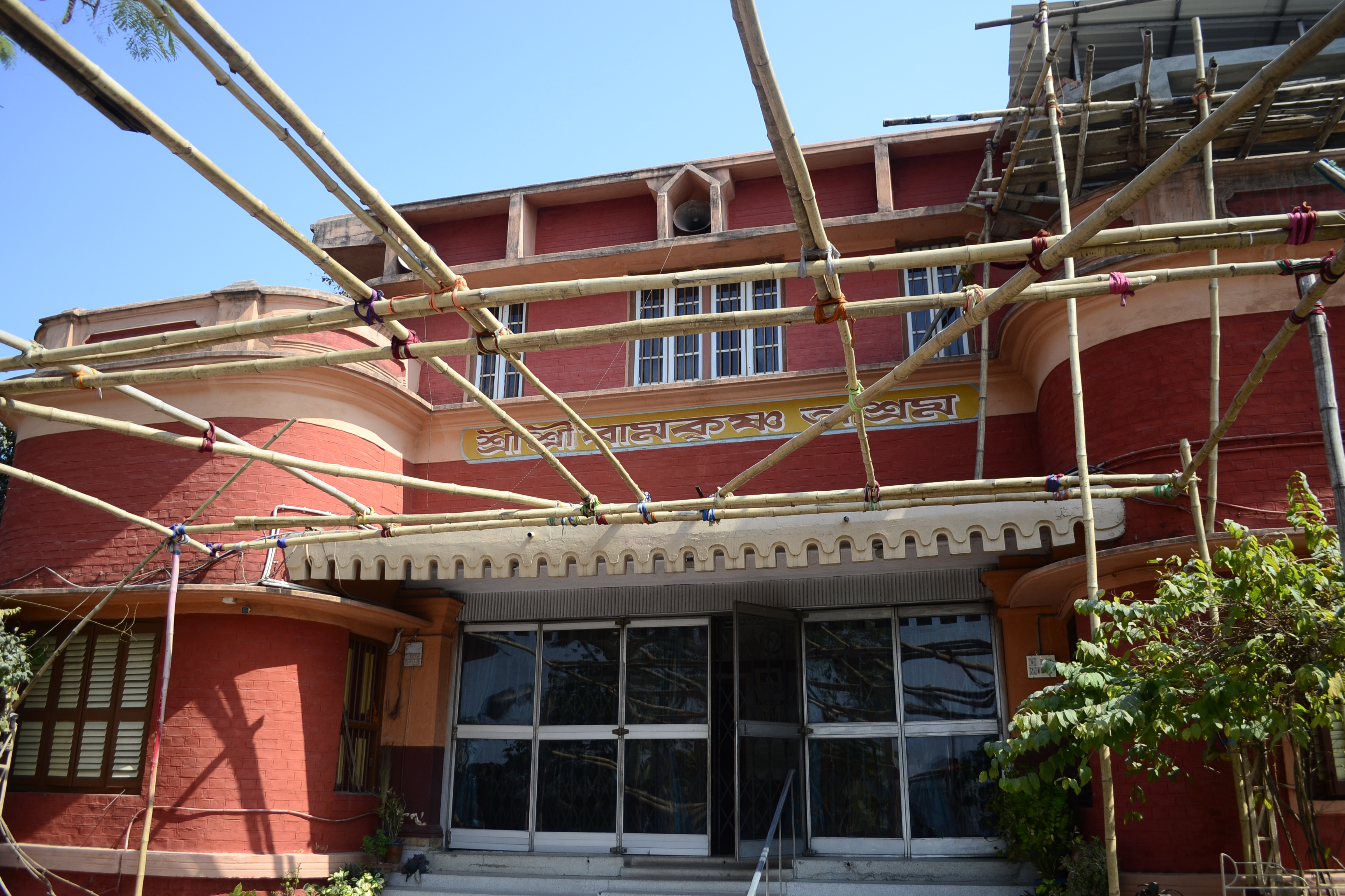 Kanch Mandir or Kancher Mandir means the temple made of glass, also popularly known as Sheesa Mandir., which is situated on the premises of Ramkrishna Ashram of baranagar, Kolkata. Swami Satyananda, an ardent follower of Swami Abhedananda, founded this temple. The idol of Goddess Kali is installed inside the temple along with the idol of Shri Ramkrishna paramahansa and his wife Sarada Devi.